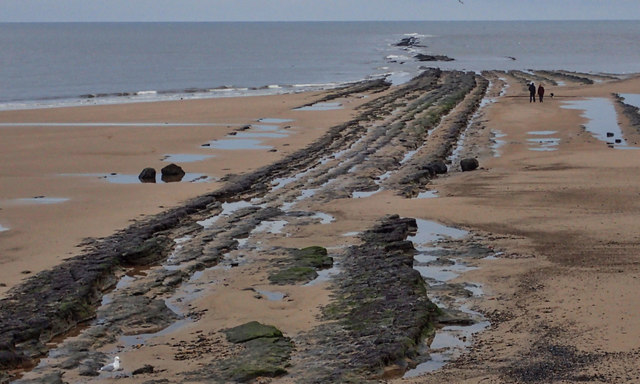 Redcar Rocks on the beach at Redcar in north-east England. These tilted sedimentary rocks are part of the Redcar Mudstone Formation (Lower Lias), formed during the Early Jurassic.